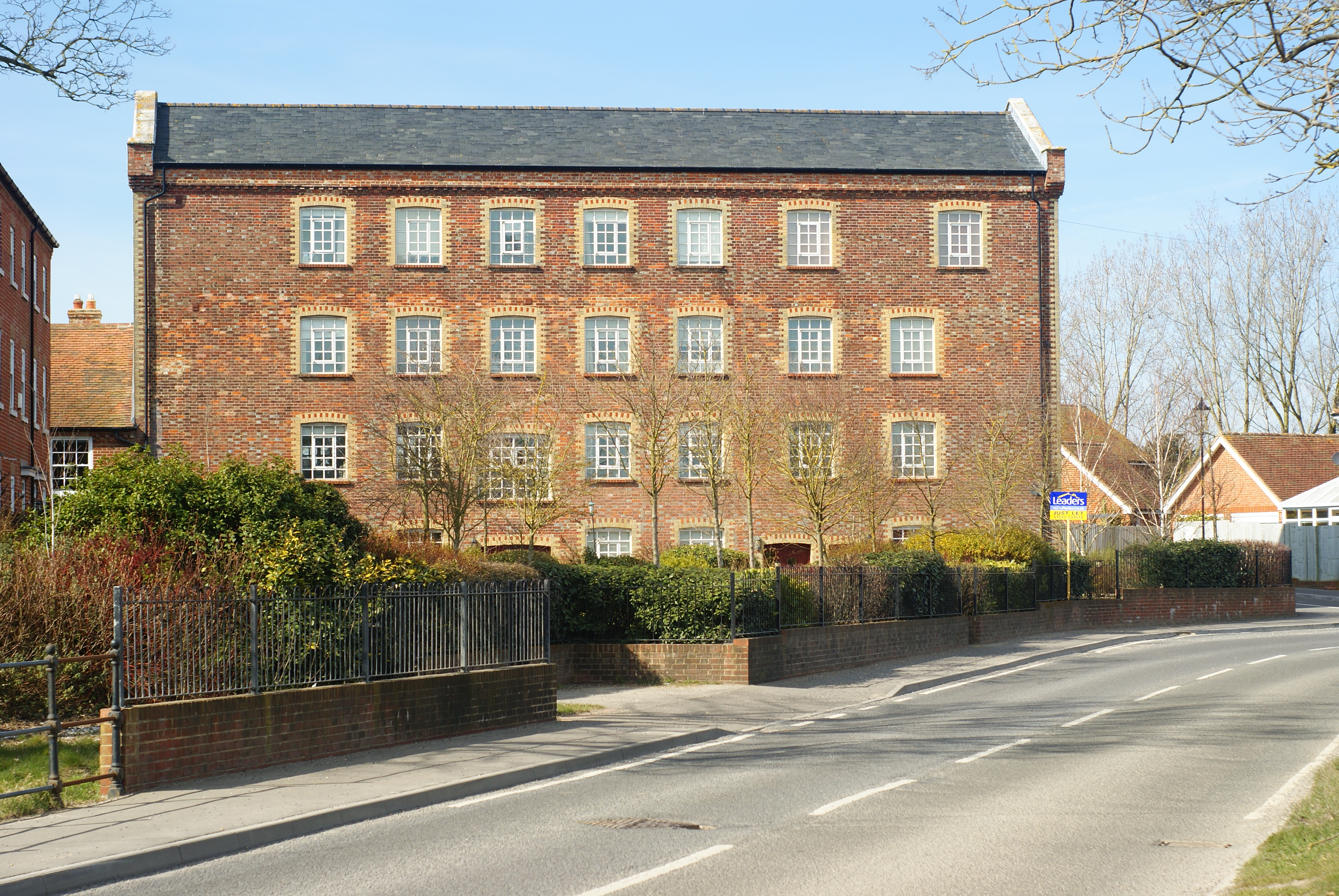 Westhampnett Mill, Sussex Former watermill; part of a housing development (2000), now starting to look quite mature.